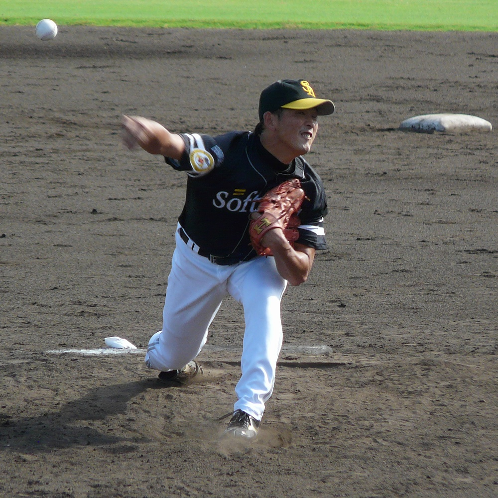 SH-Yohei-Yanagawa20110913